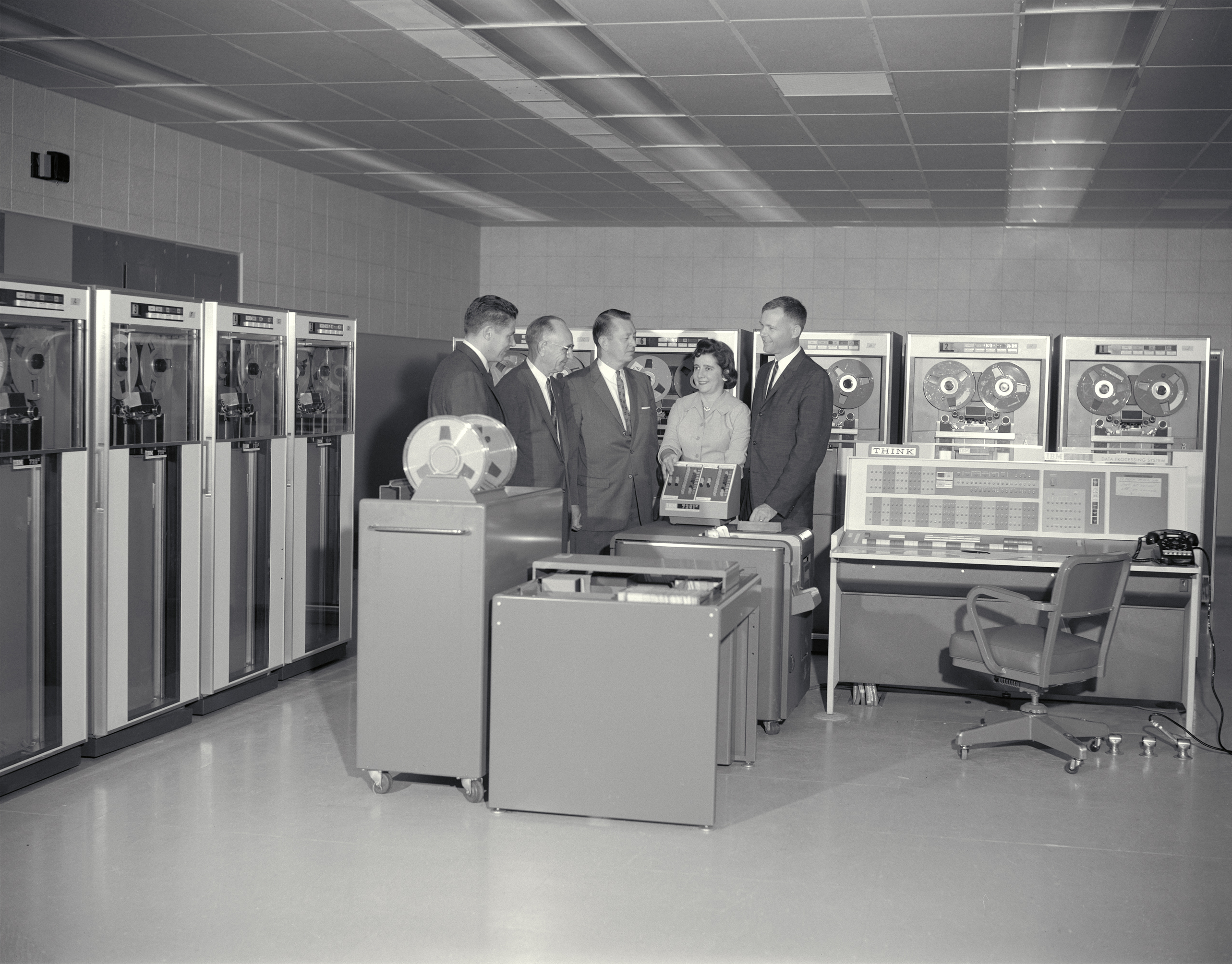 IBM 7090 computer and personnel (l-r) R Smith, IBM; S DeFrance, Ames Director; P Funk, IBM; M Chartz Smith, Ames; D Swartz, IBM.